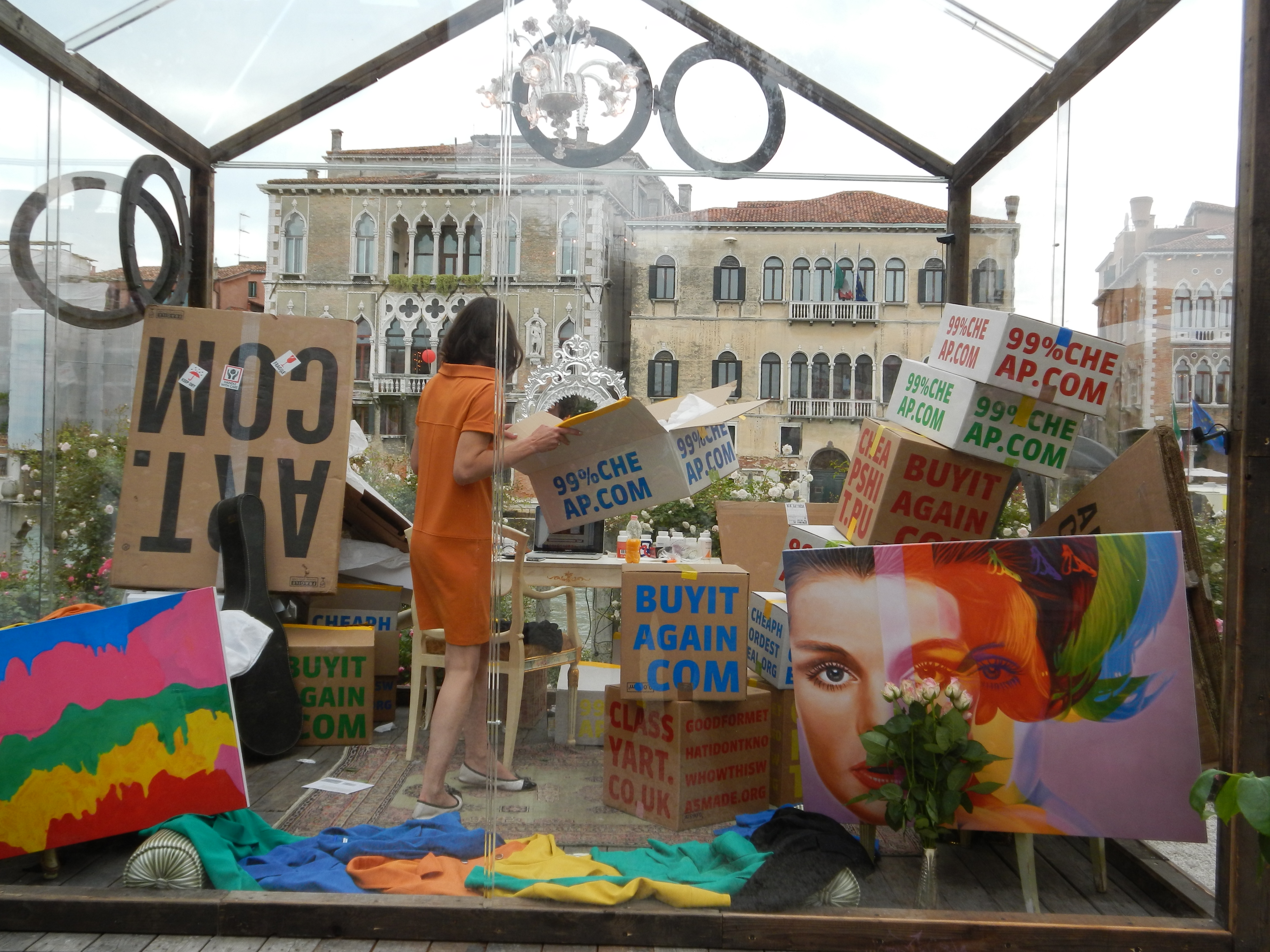 Milla Jovovich in Tara Subkoff's filmed art installation, Future/Perfect in Venice, Italy, 2013